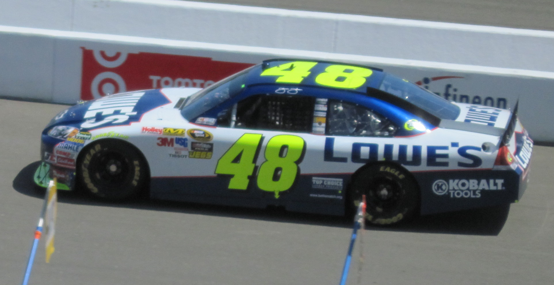 Jimmie Johnson - the eventual winner of the Toyota/Save Mart 350 at Infineon Raceway in 2010.